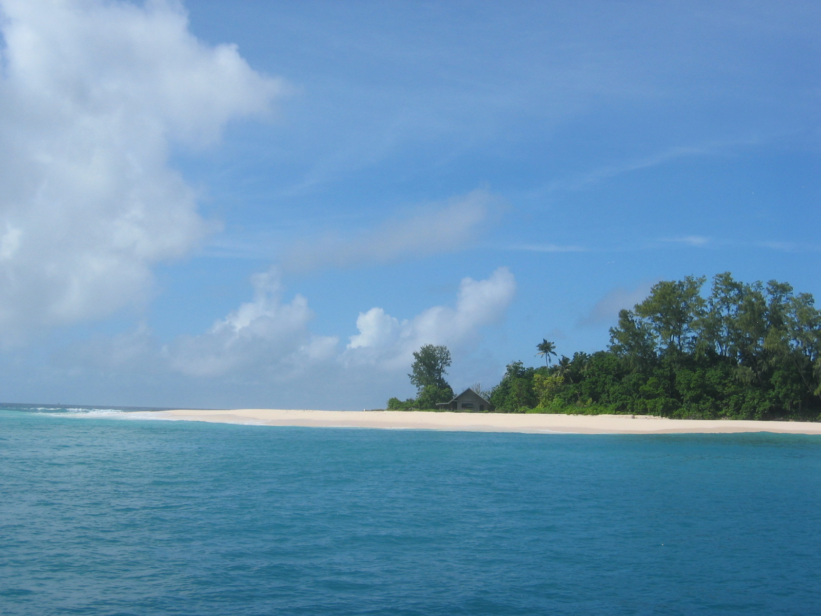 Cousin Island, Seychelles